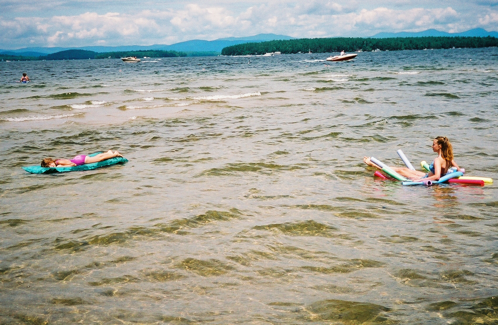 Ellacoya State Park, New Hampshire FH010019.jpg